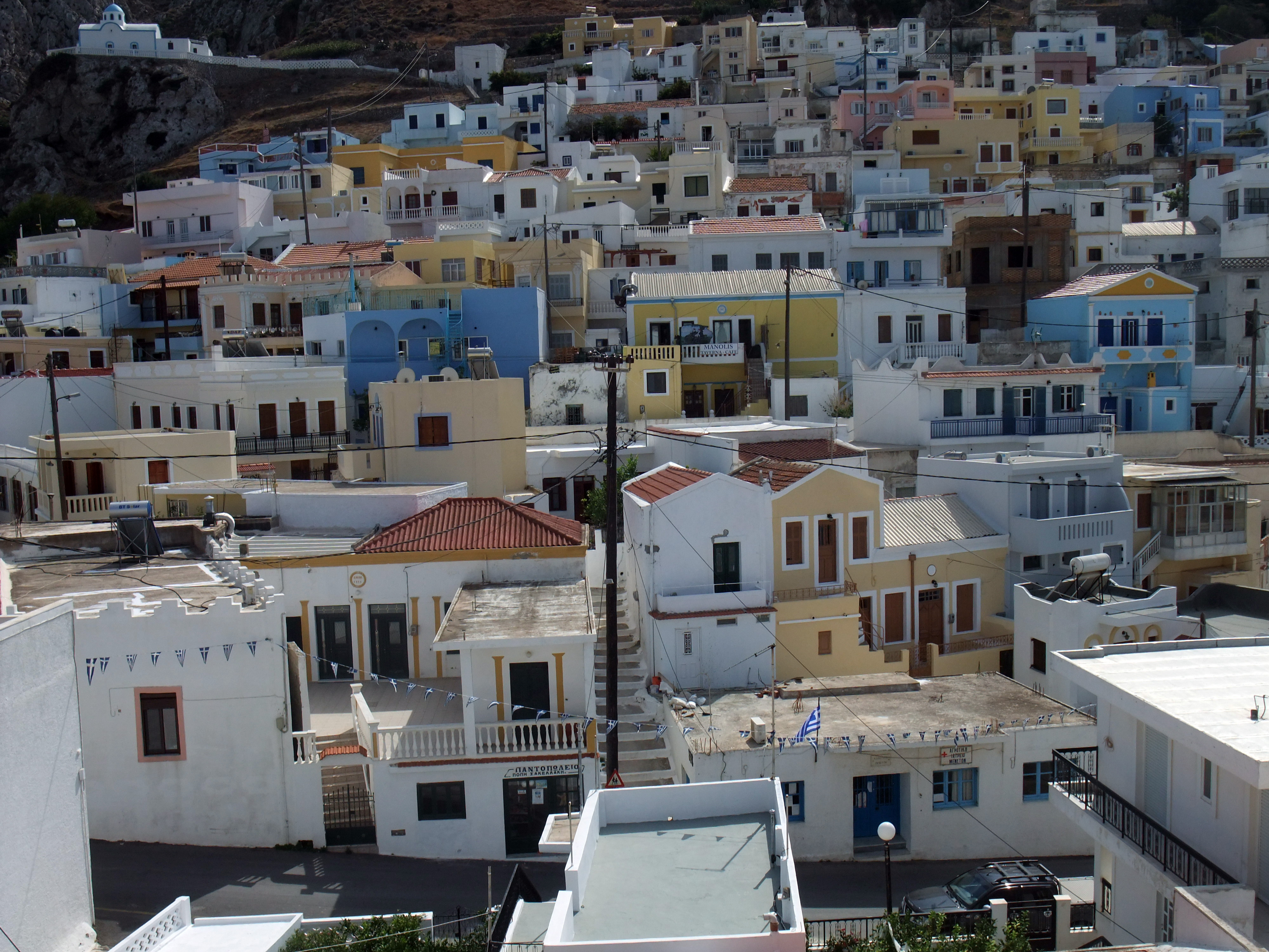 Row of houses in Menetés (Karpathos, Greece)